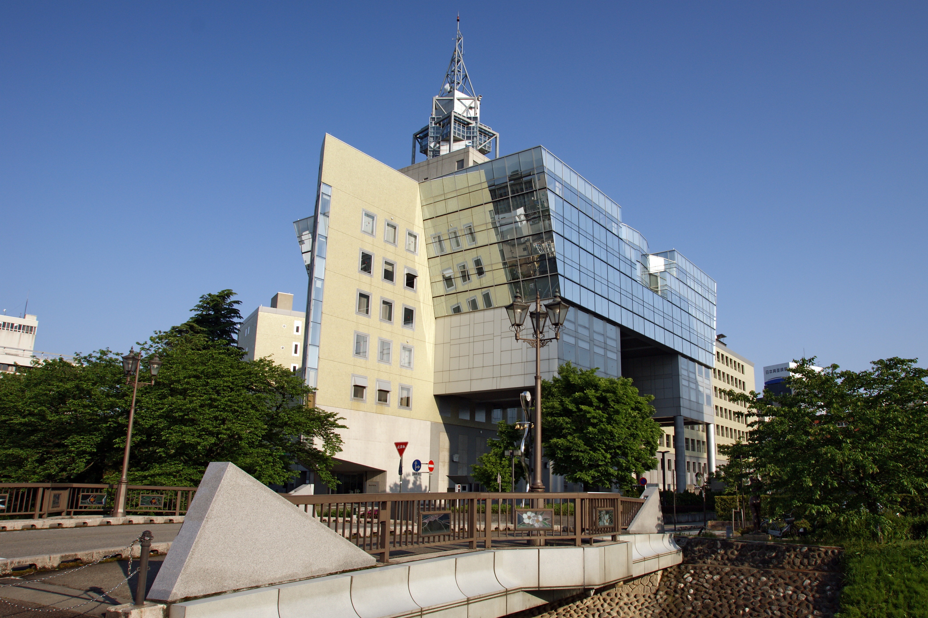 Toyama City Hall, Toyama, Toyama prefecture, Japan